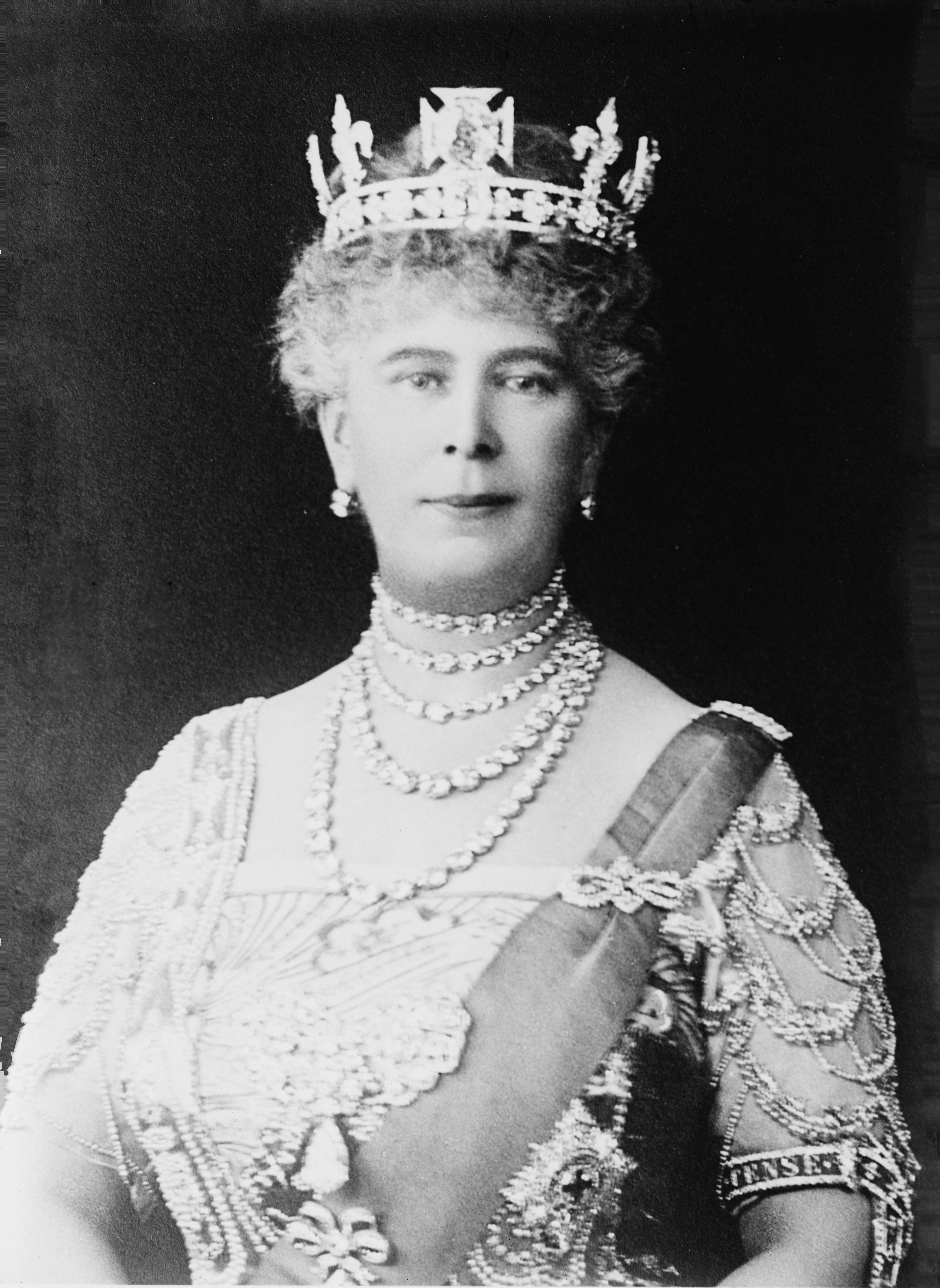 Portrait of Queen Mary (1867–1953)